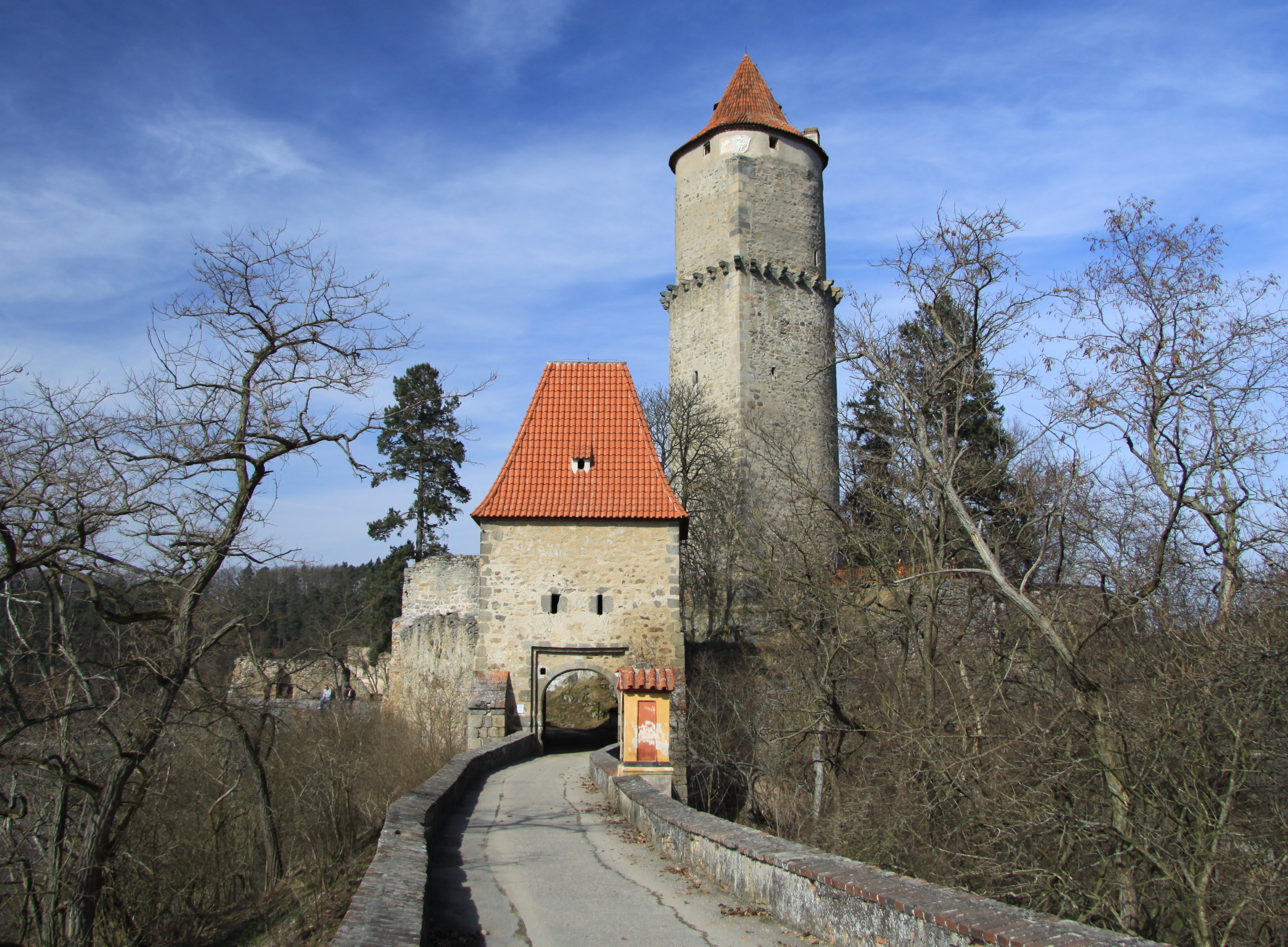 Zvíkov castle in Pisek District, Czech Republic.